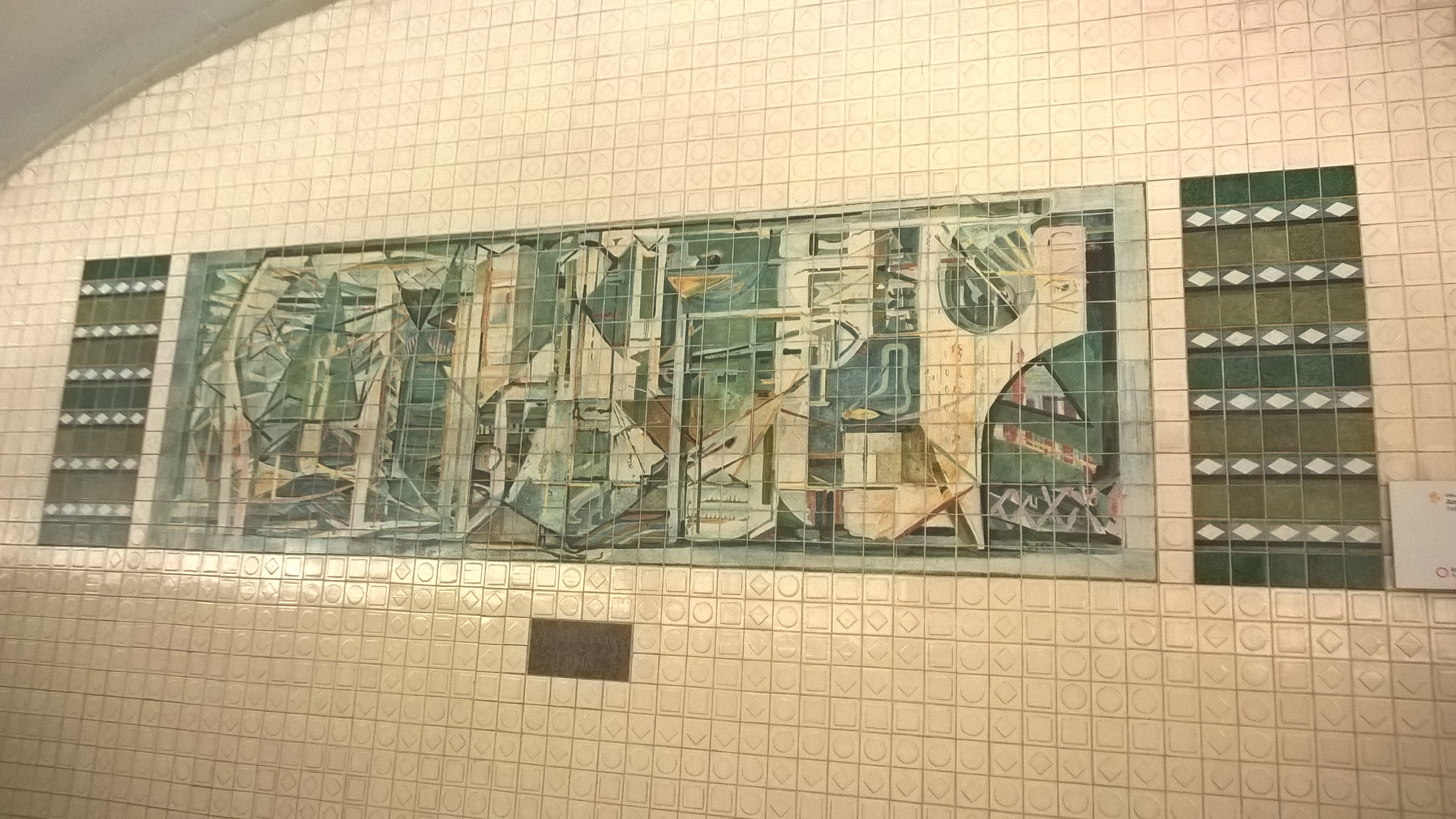 Tile ´s mural at the Rato Metro Station, Lisbon, based on Árpád Szenes painting of 1948